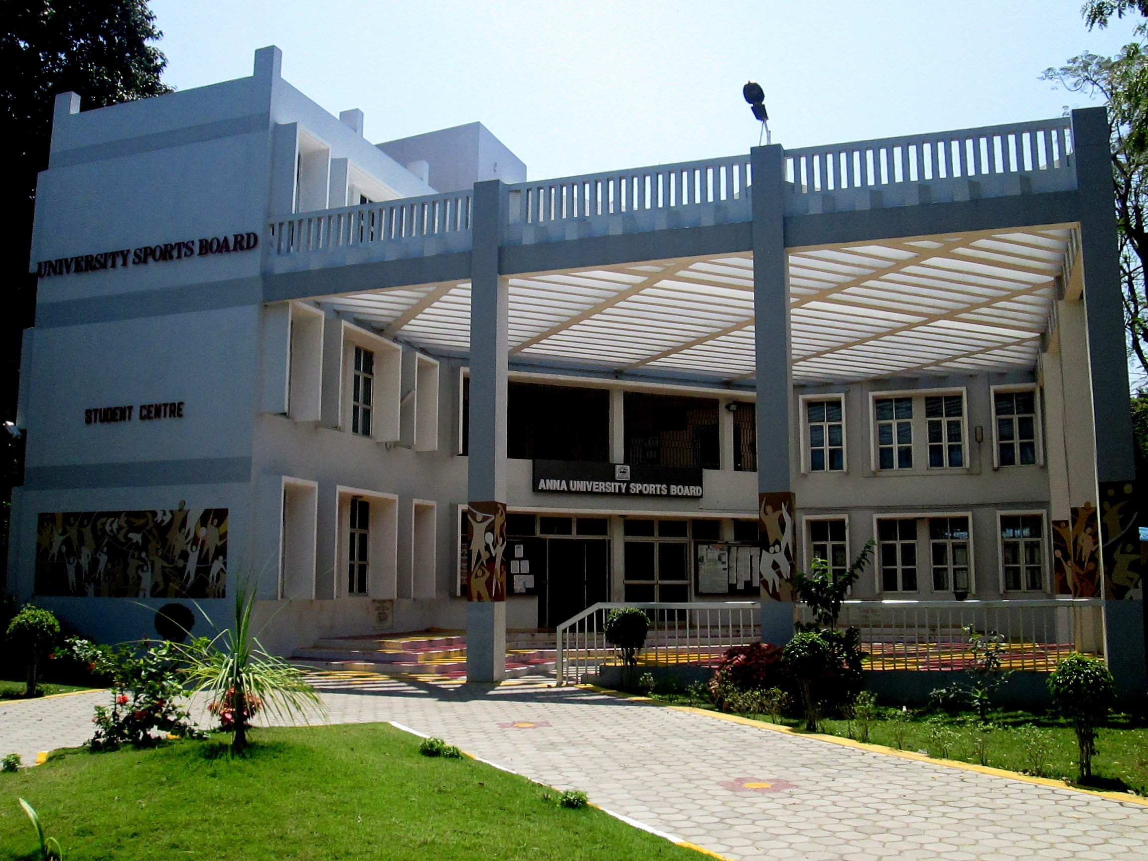 Students activity centre at College of Engineering, Guindy, Anna University, Chennai